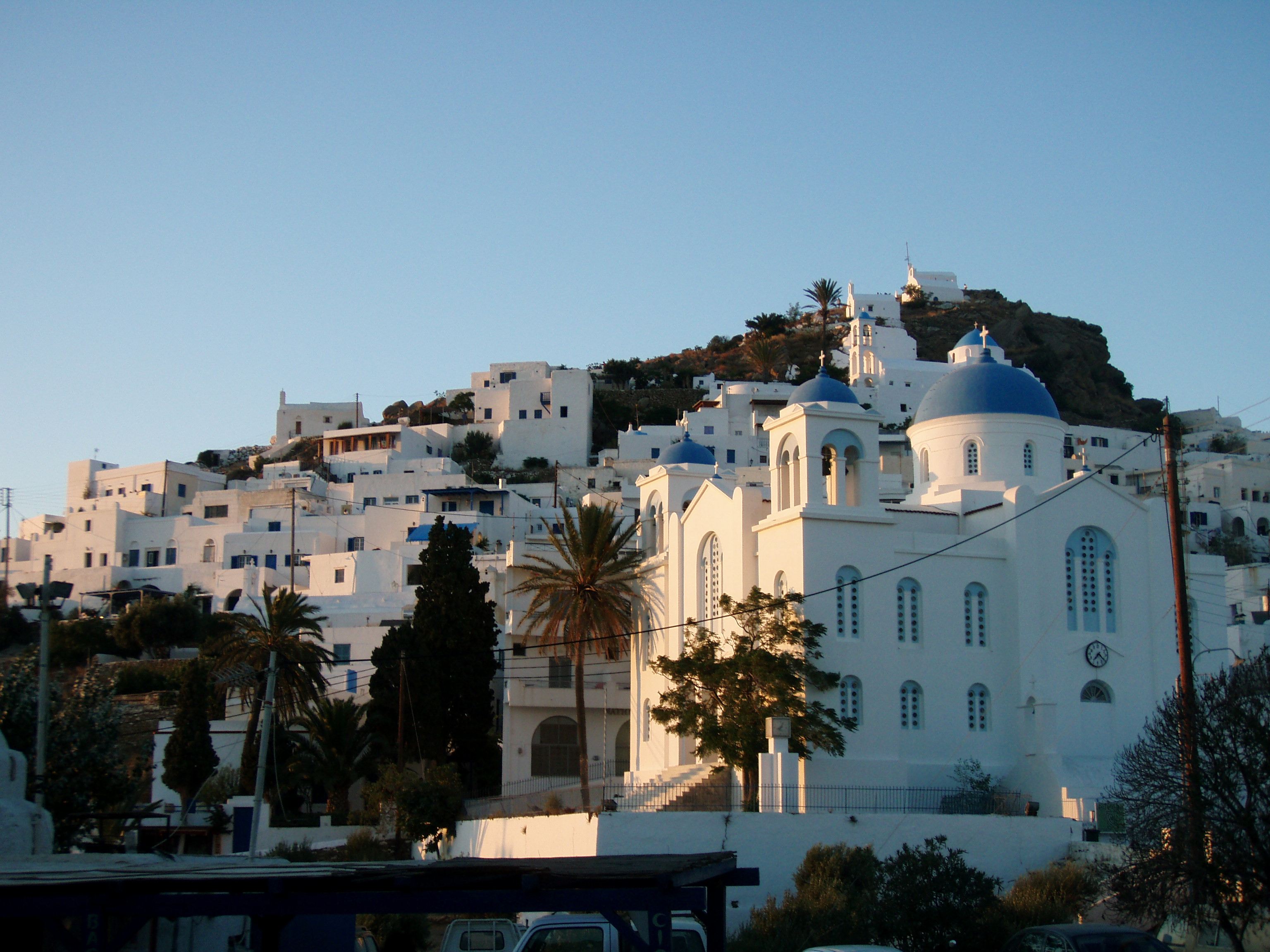 Town of Ios Greece